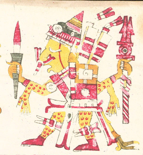 Illustration of Aztec god, Xipe Totec